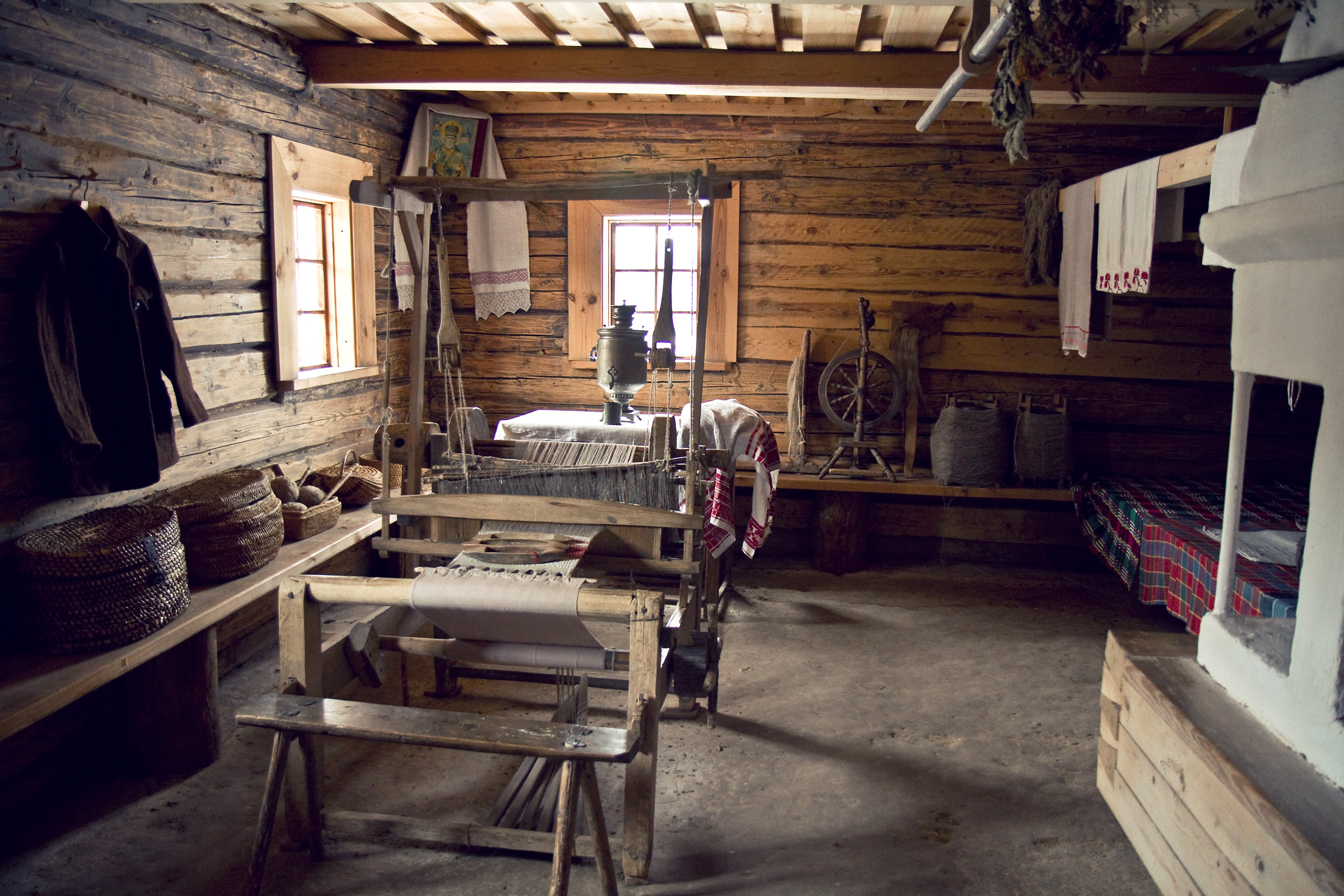 Village house from Central Belarus. State museum of folk architecture and life, Belarus.